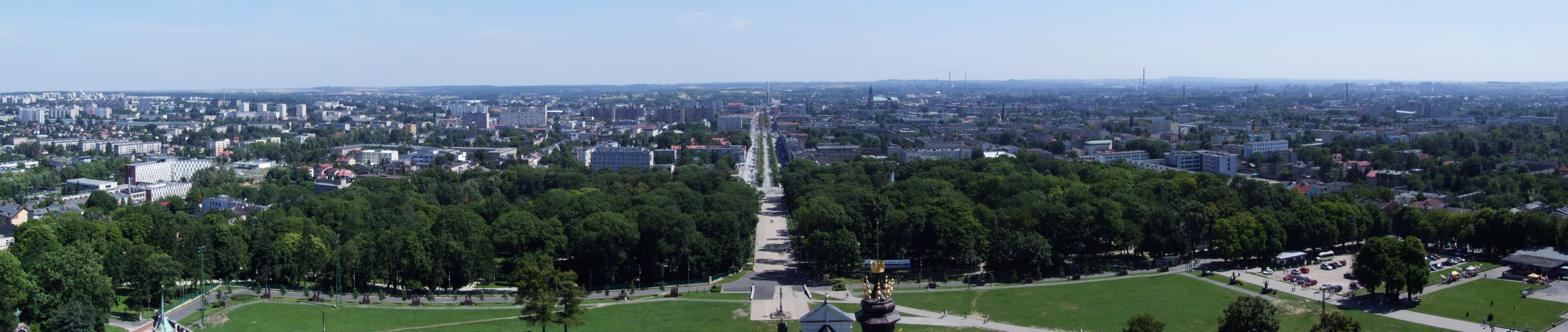 Panorama of Częstochowa. View from tower in Jasna Góra monastery